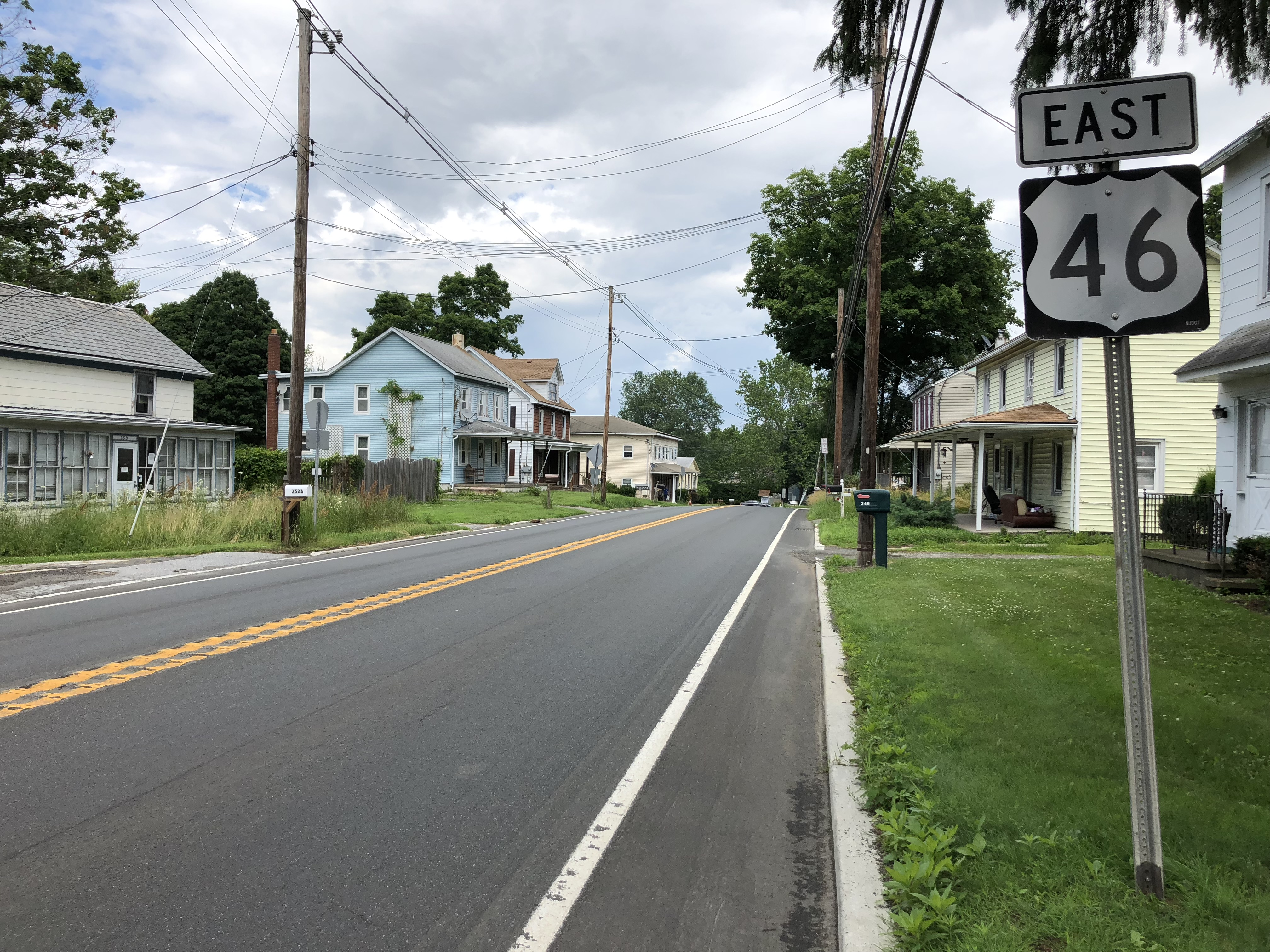 View east along U.S. Route 46 just east of Warren County Route 611 (Hope Road) in Independence Township, Warren County, New Jersey